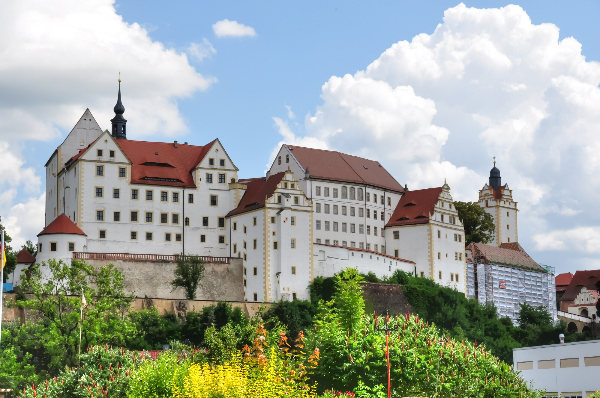 Colditz Castle in 2011, taken from the town of Colditz. The ridge of the roof on the far left was to be the launching platform for the colditz glider, with the landing site approximation being where the photo was taken.